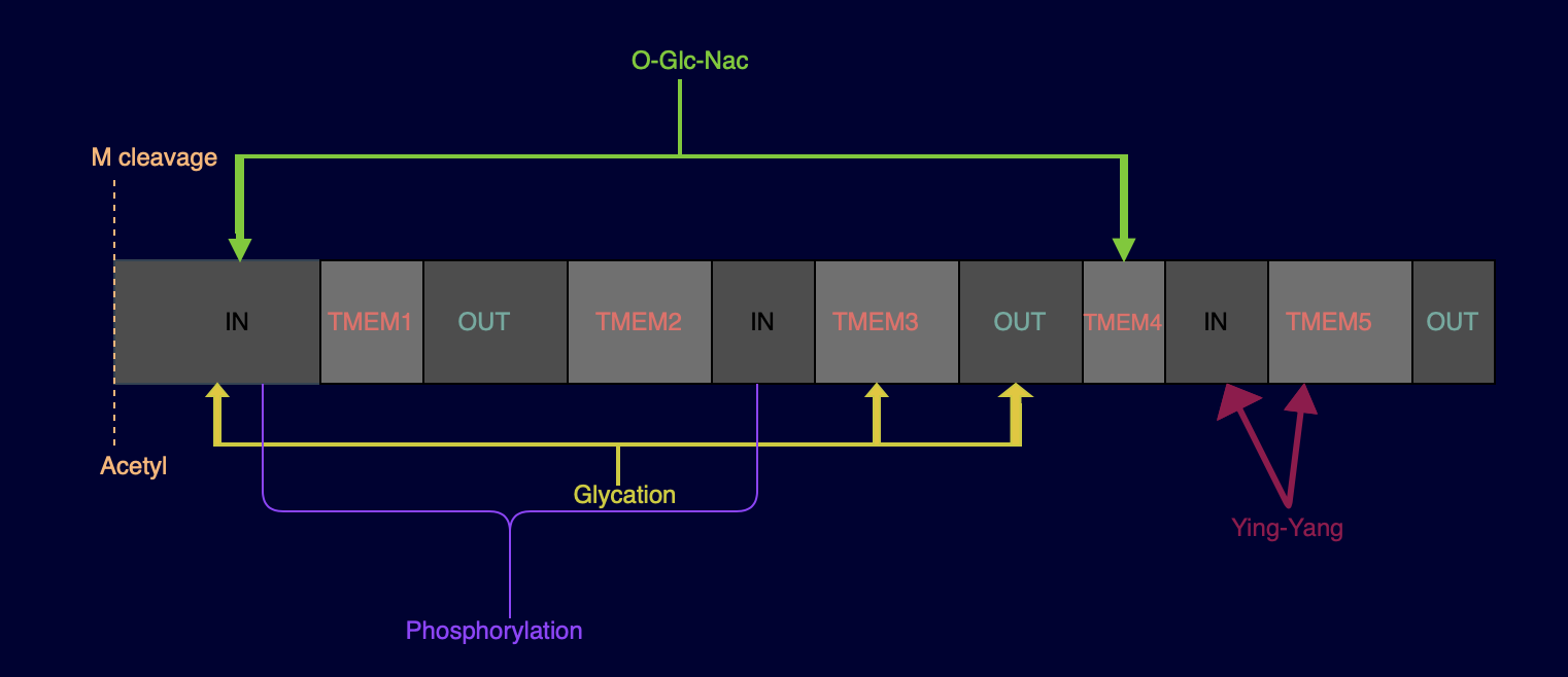 Domain and motif analysis